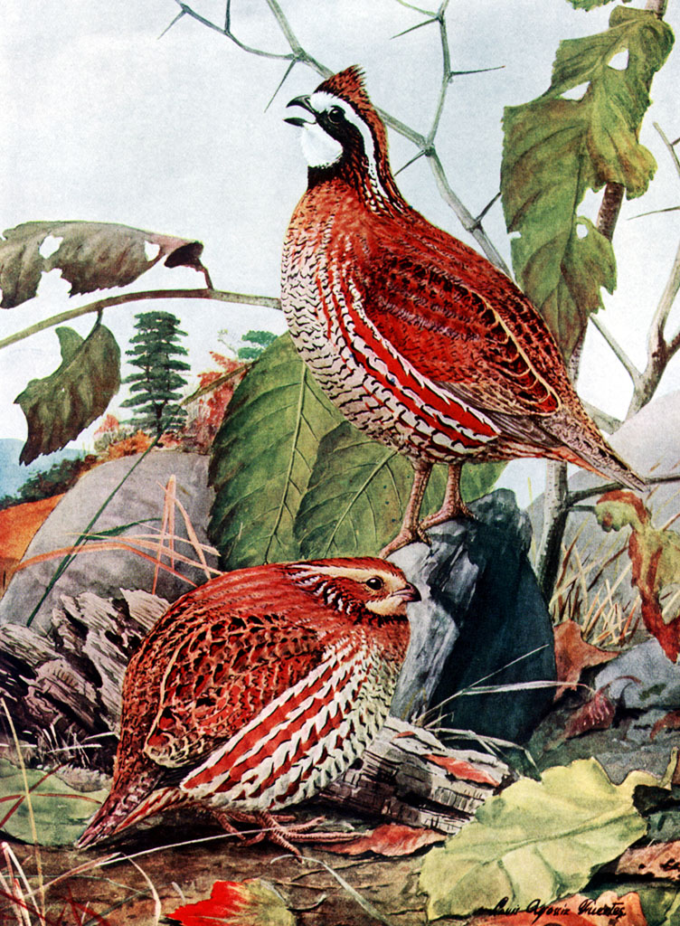 Bobwhite Quail, Colinus virginianus, male (above) and female (below) offset reproduction of watercolor